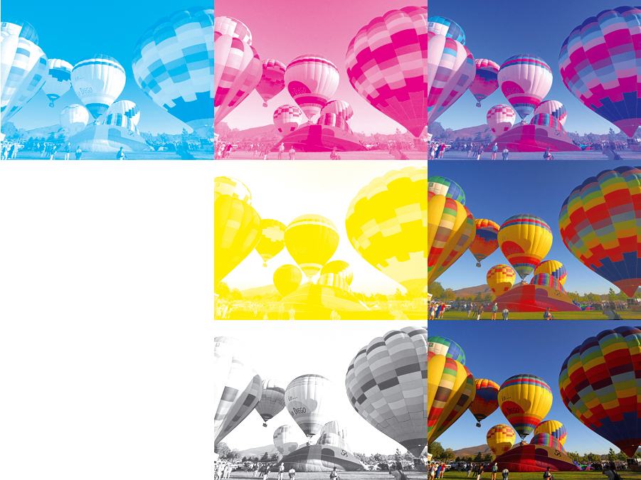 CMYK Separation: Cyan (C), Magenta (M), Yellow (Y), Black (K), Cyan + Magenta (CM), Cyan+Magenta+Yellow (CMY), CMYK